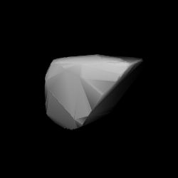 3D convex shape model of 1854 Skvortsov, computed using light curve inversion techniques. J. Hanuš, J. Ďurech, M. Brož, B. D. Warner (June 2011). "A study of asteroid pole-latitude distribution based on an extended set of shape models derived by the lightcurve inversion method". Astronomy and Astrophysics 530: A134. ISSN 0004-6361. arXiv